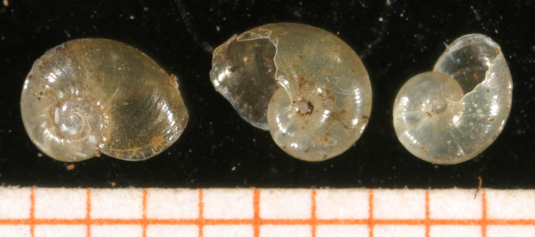 Daudebardia rufa (Draparnaud, 1805). Scale is in mm. Locality: Germany: Niedersachsen, Hannover-Wülferode. Date: October 1974.